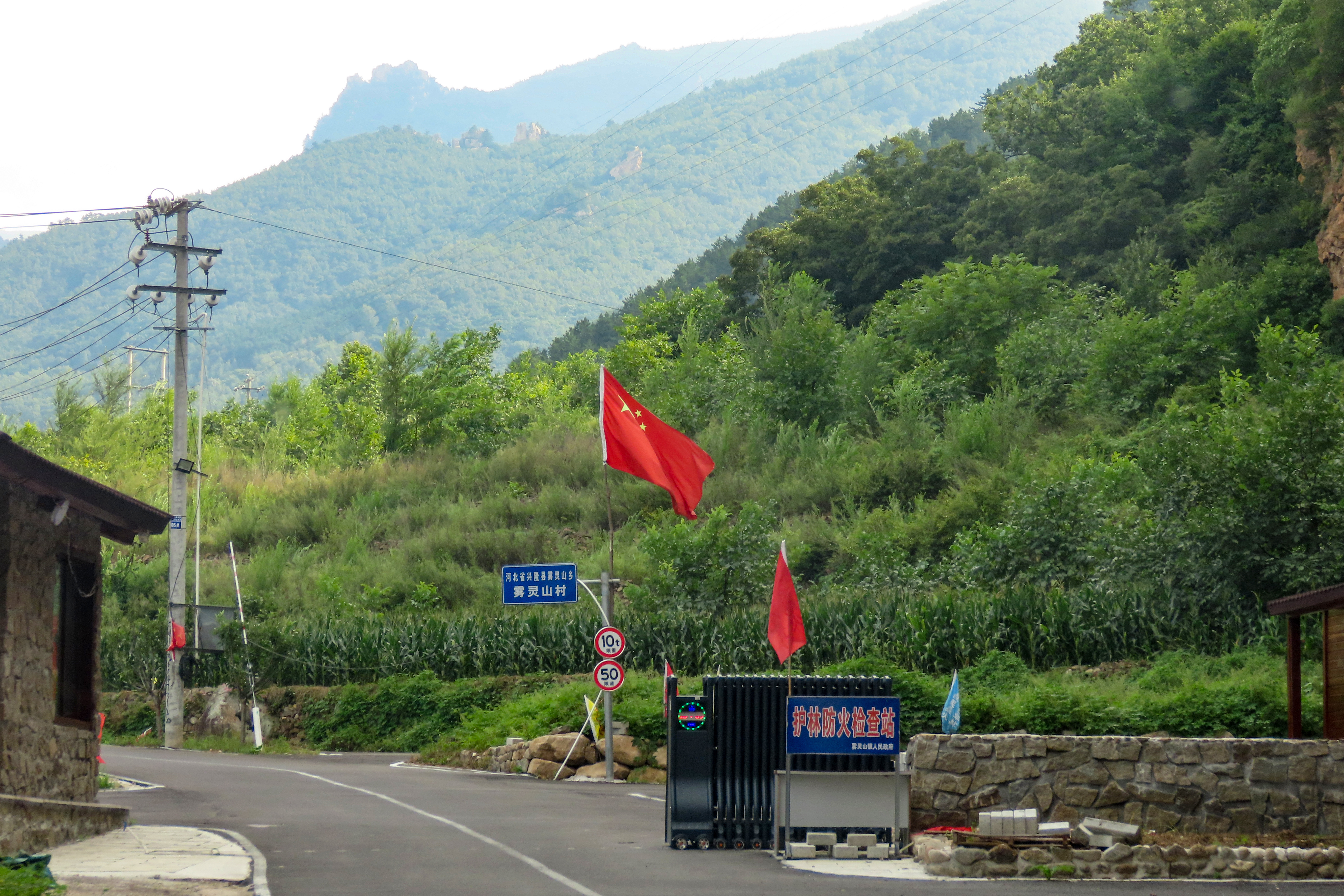 Crossed the border again!